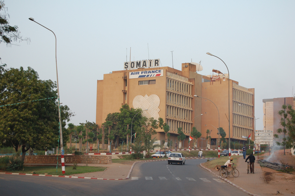 The SONARA building near the Kennedy Bridge in Niamey, Niger. Looking east. Orginally the headquarters of SONARA, the Nigerien state groundnut board, from the post independence period when groundnuts were the top cash export of the nation. As the sign indicates, the building now houses Air France, as well as Somair (Société des Mines de l'Aïr) the public / private uranium mining company. Uranium far surpassed other commodities in the 1970s to be the top export.